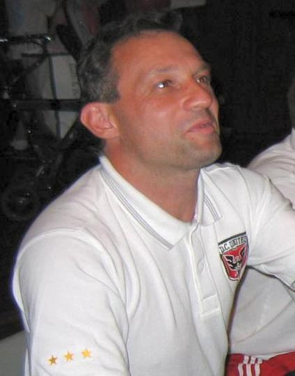 Photo of Piotr Nowak taken by me at D.C. United meet-the-team day.